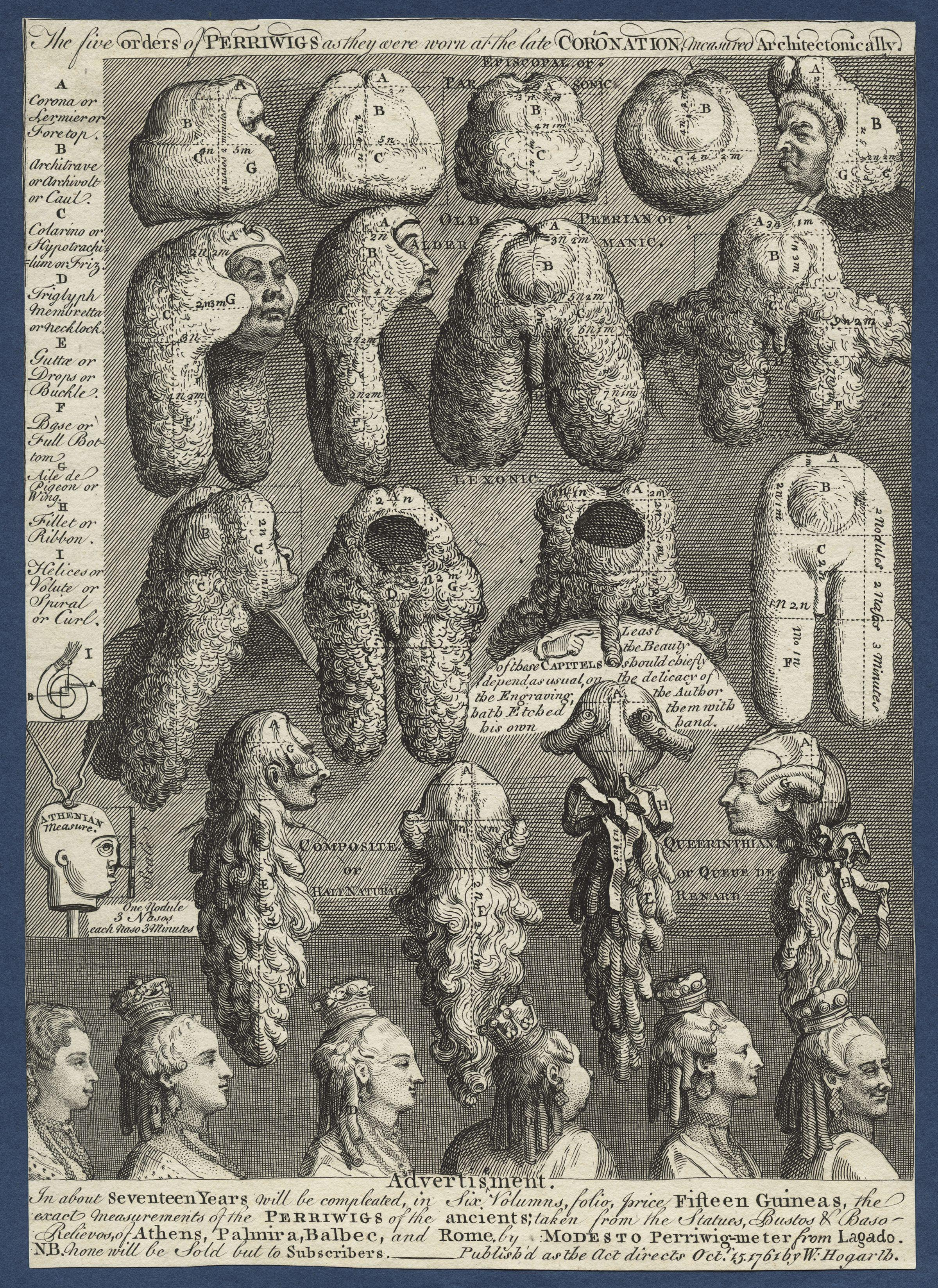 The Five Orders of Perriwigs, by William Hogarth (died 1764), published 1761. All images in this batch have been confirmed as author died before 1939 according to the official death date listed by the NPG.